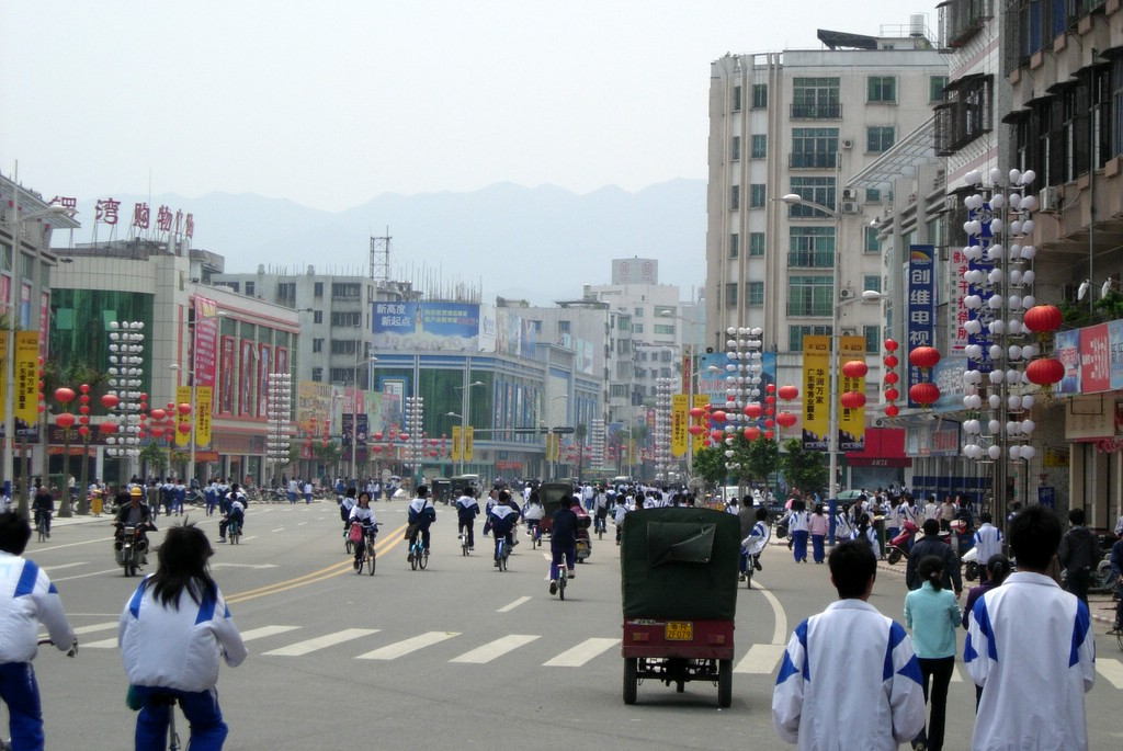 Fogang Zhenxing Road